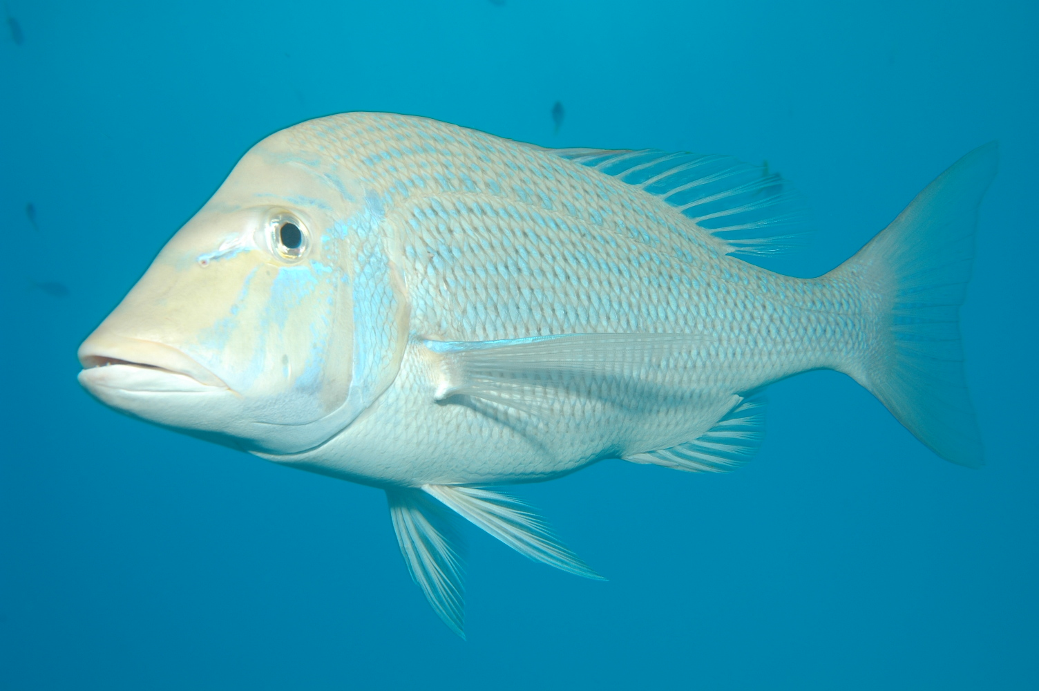 Lethrinus olivaceus in the Great Barrier Reef, Australia